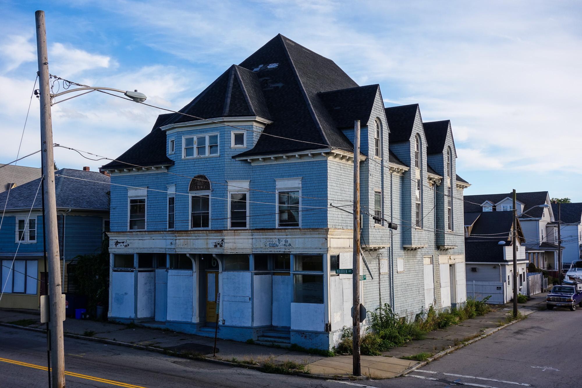 Oddfellow's Hall